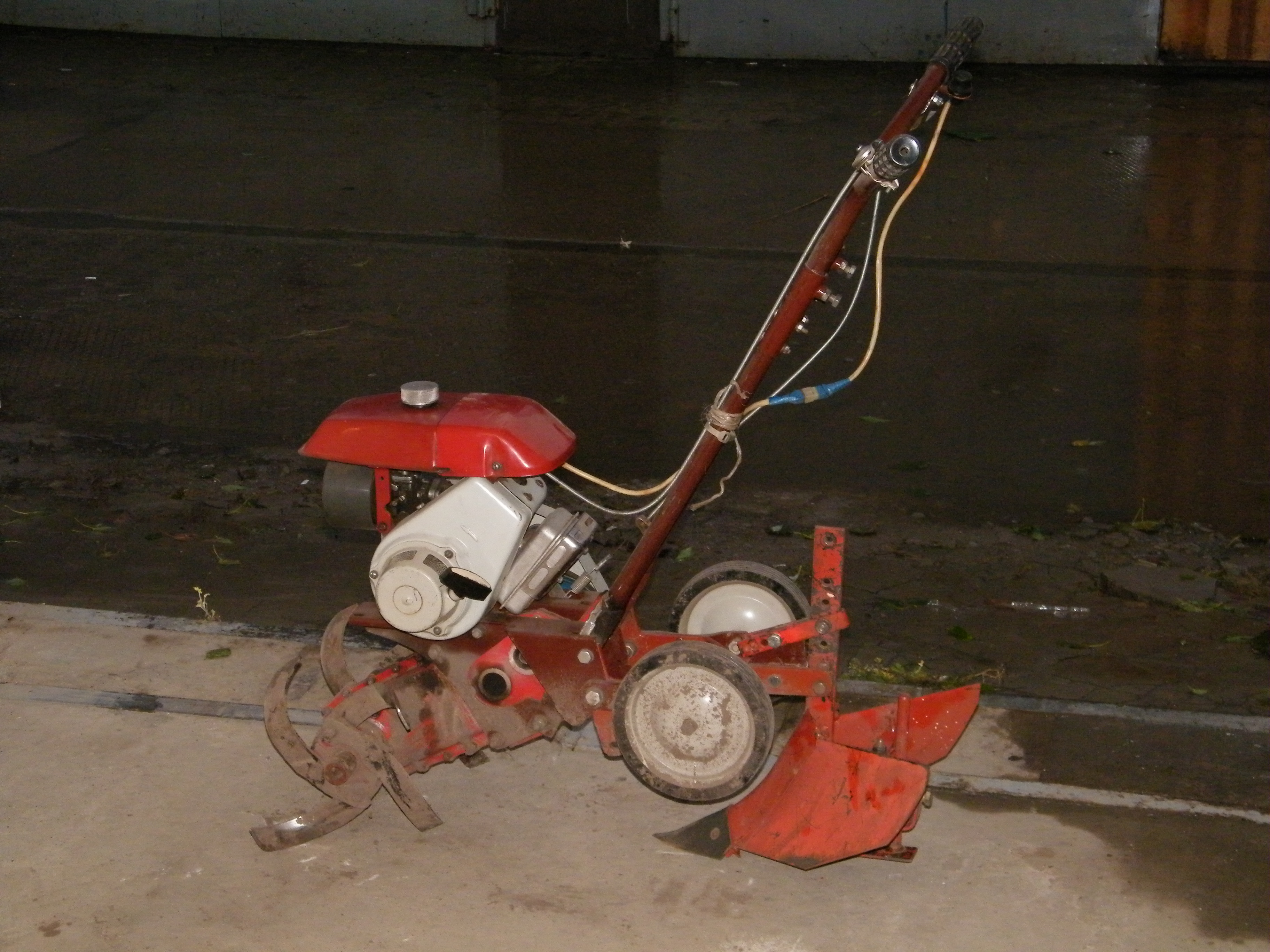 Krot from Russia